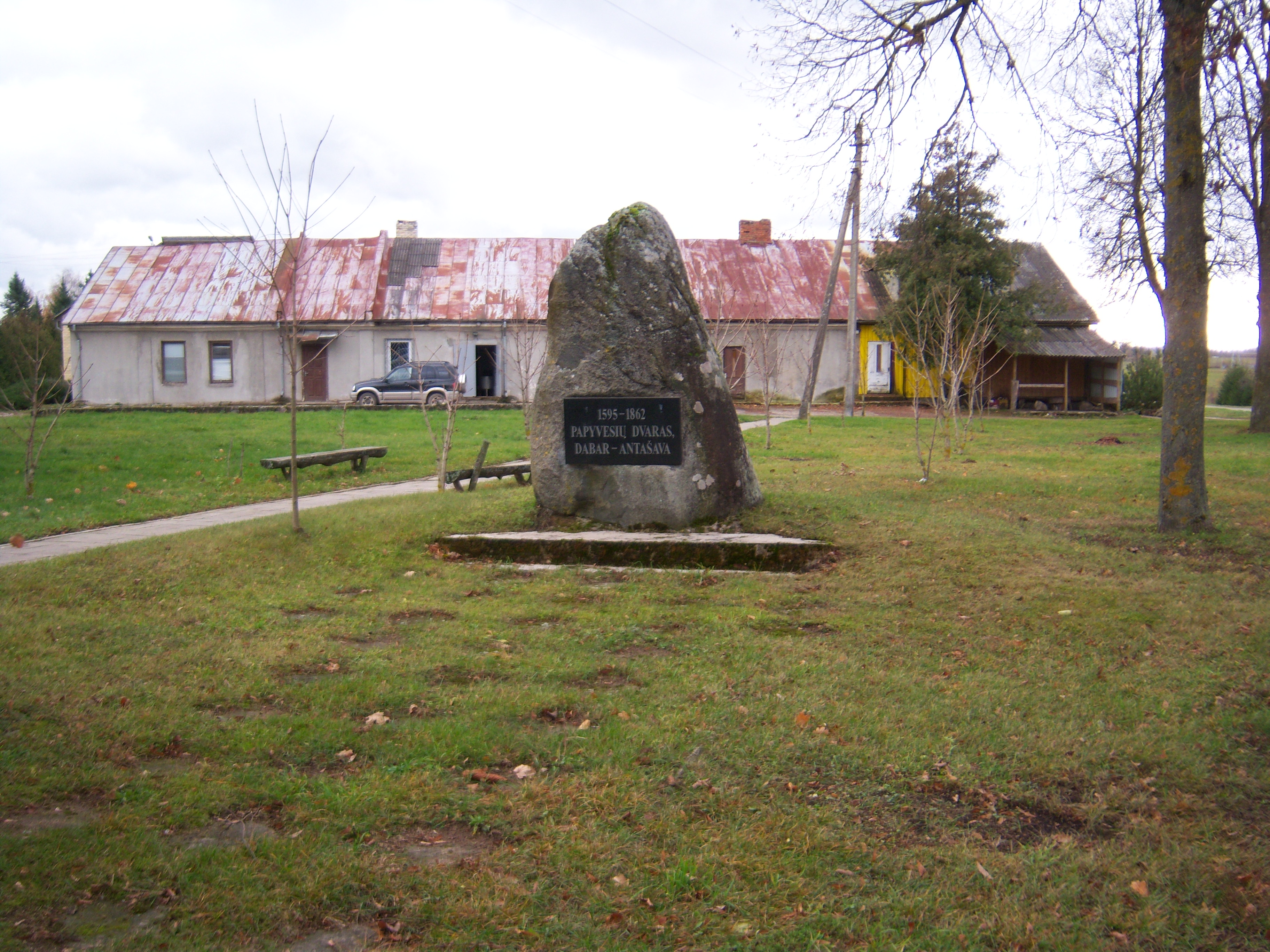 Stone in Antašava, Kupiškis District, Lithuania